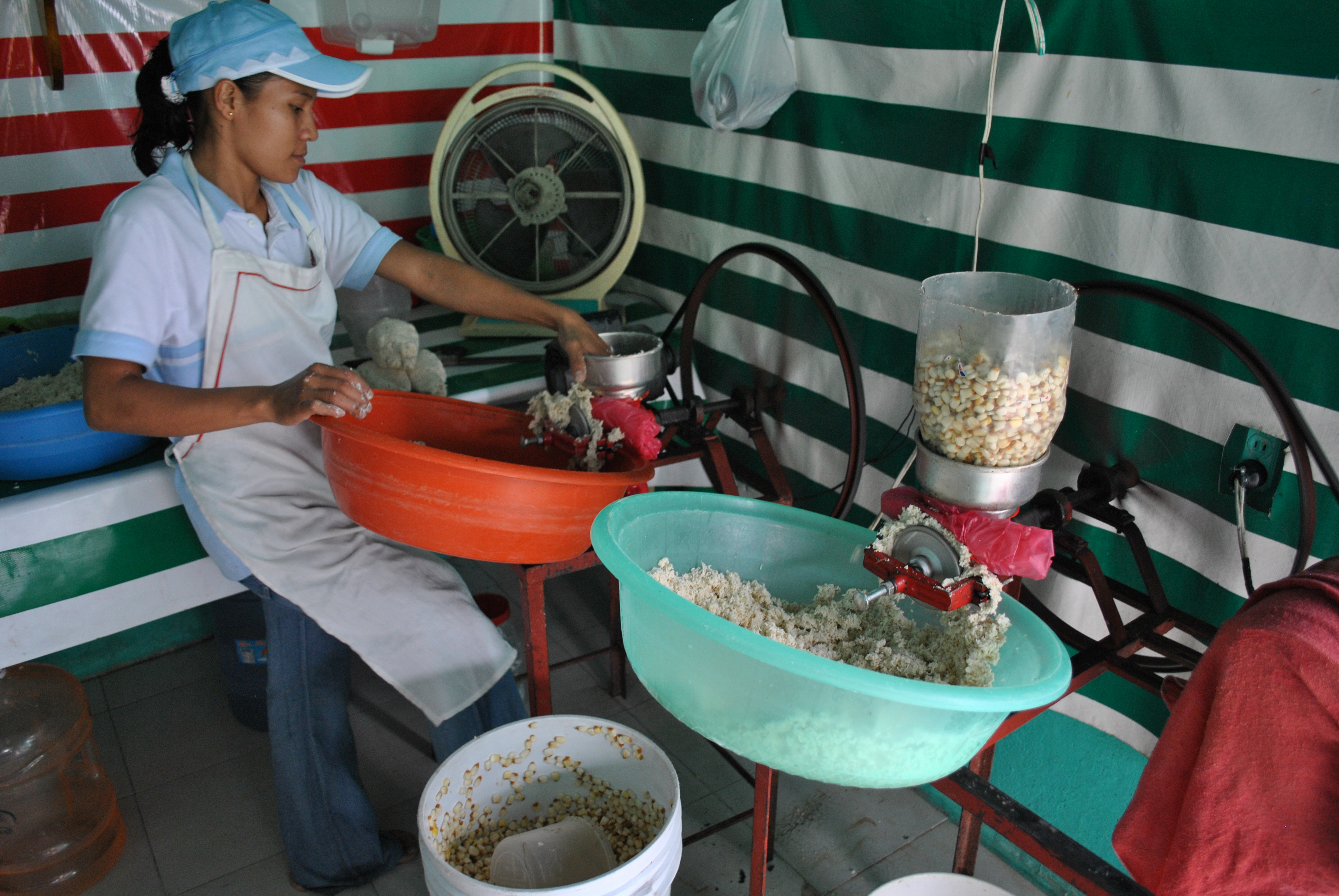 Woman grinding corn for pozol in a mill. Paraíso, Tabasco, México.